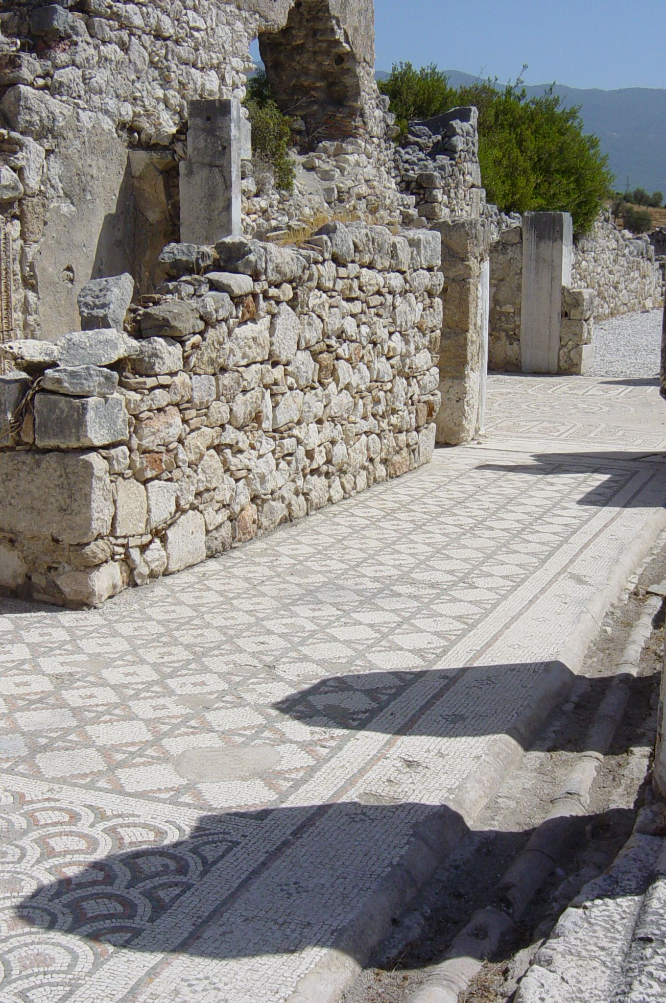 Mosaic flooring, Xanthos, Turkey.